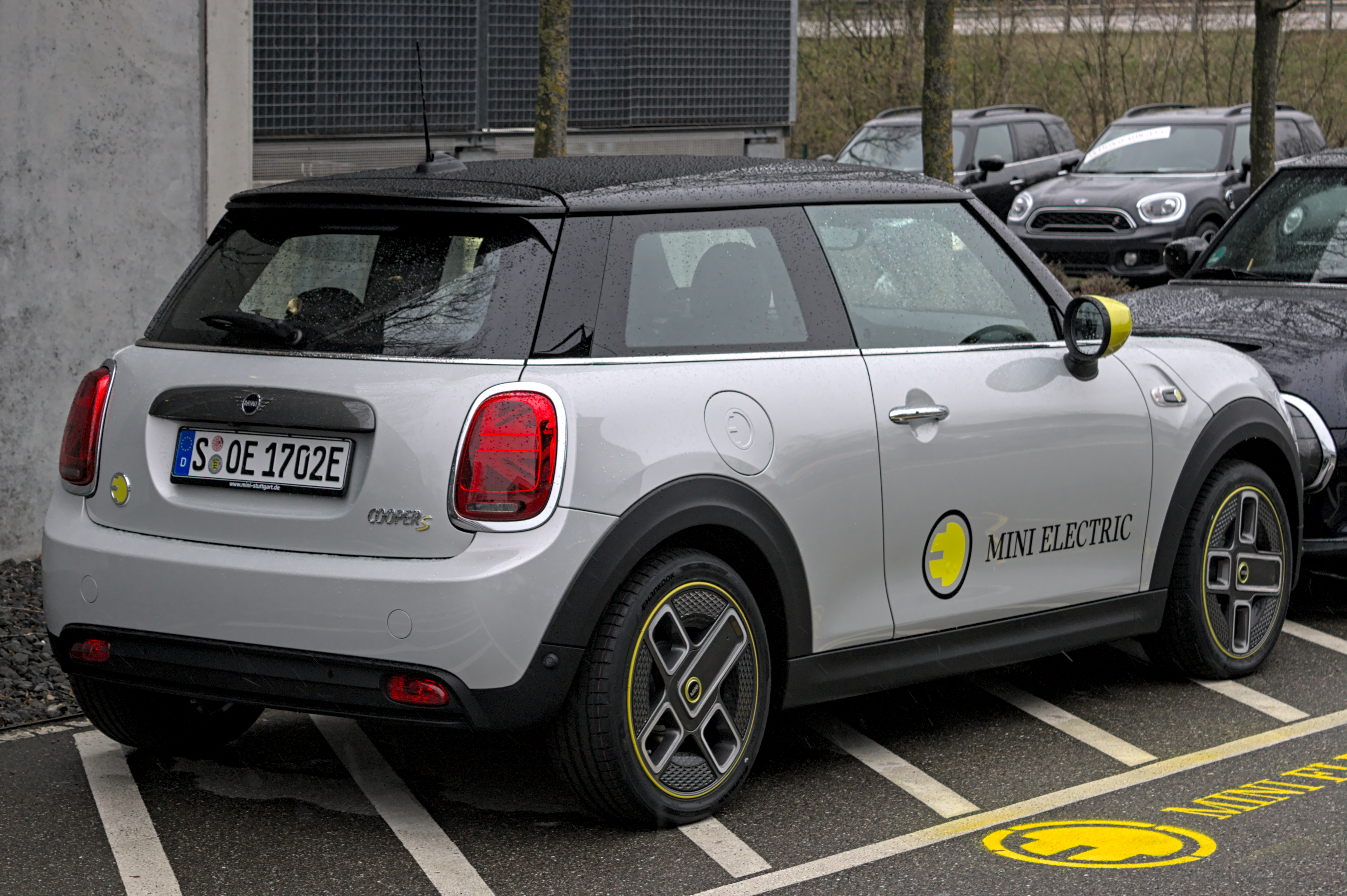 Mini_Hatch_(F56)_Electric in Stuttgart-Vaihingen